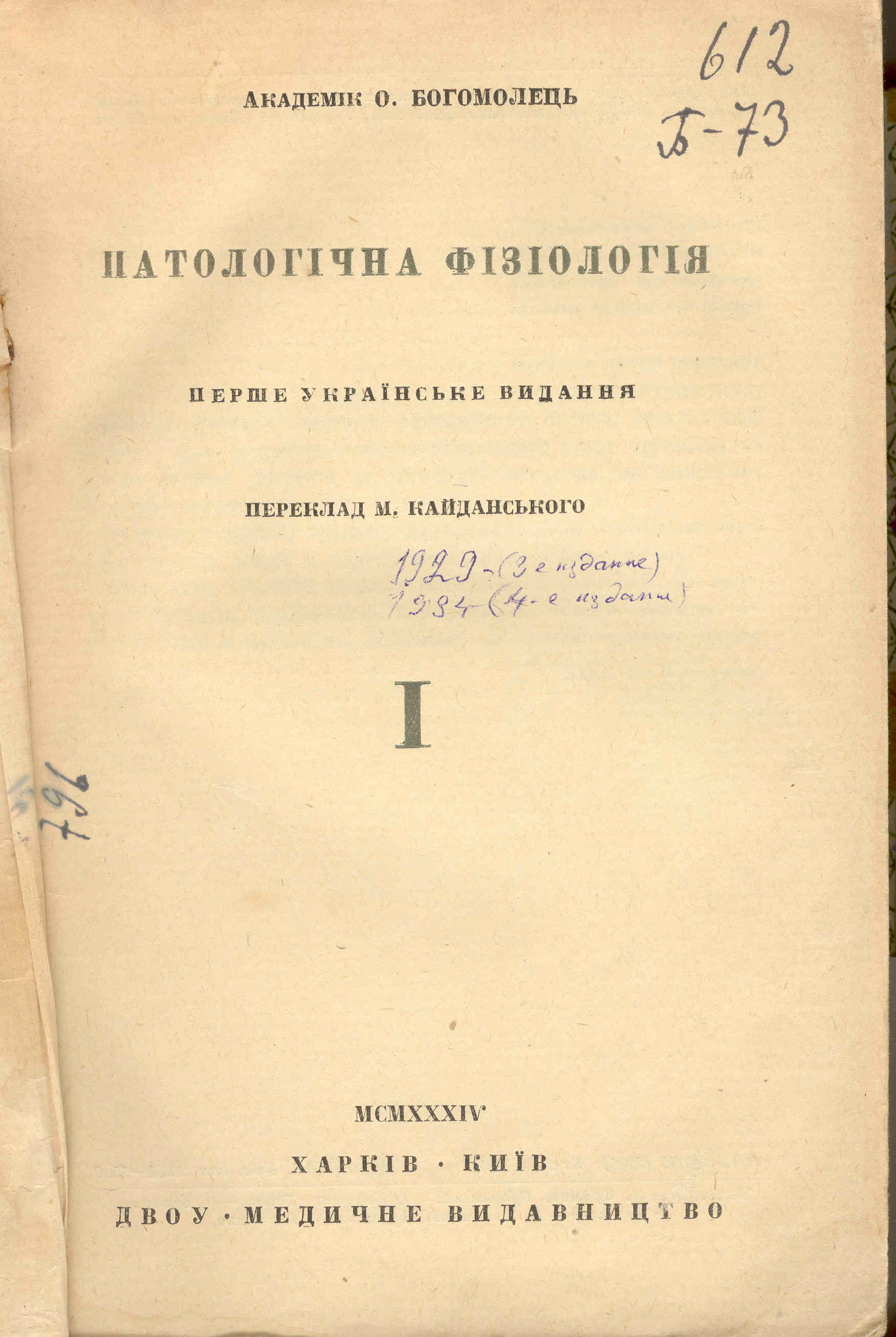 The teachong-book on patophysiology by Alexander Bogomlets (1881-1946)